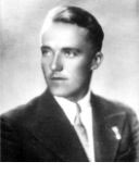 Bronisław Czech , Polish sportsman, executed by Germans in Auschwitz 1944